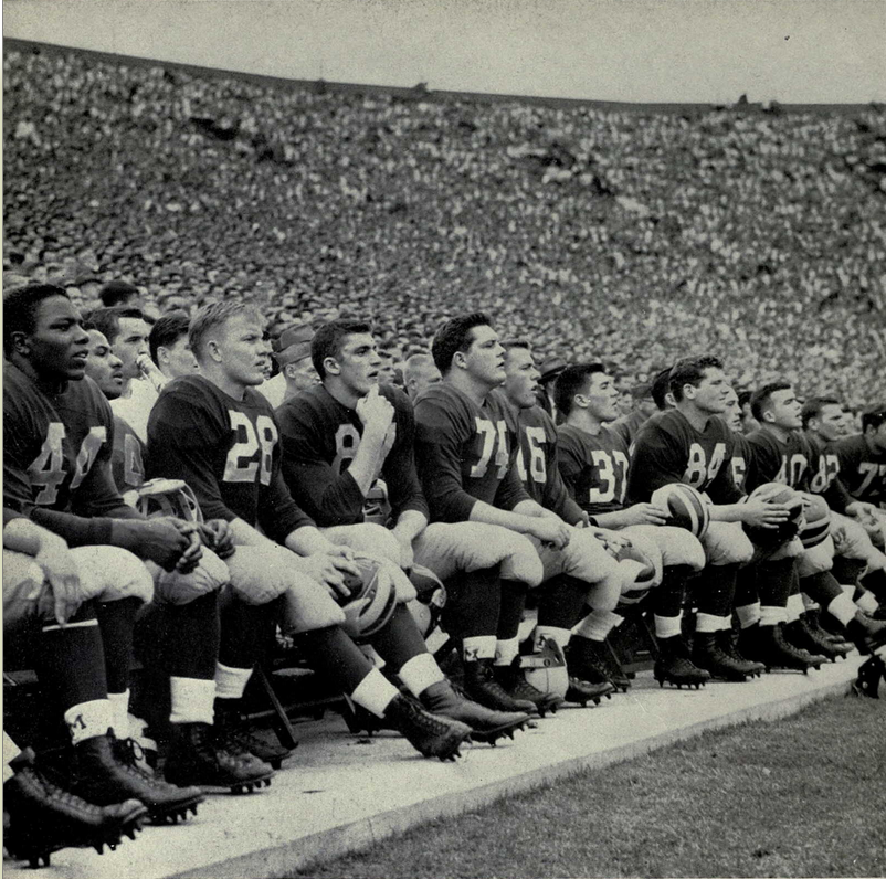 Photograph of en:1950 Michigan Wolverines football team members on sideline during game at Michigan Stadium. Players shown include David Hill (44), Peter Palmer (28), Donald Rahrig (74), David Tinkham (37), Merritt Green (84), and Terry Nulf (40).